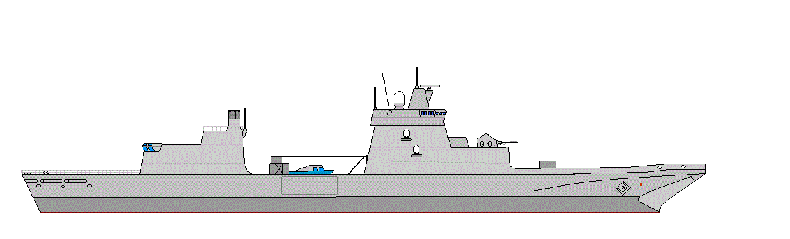 Ivan Gren class landing ship.